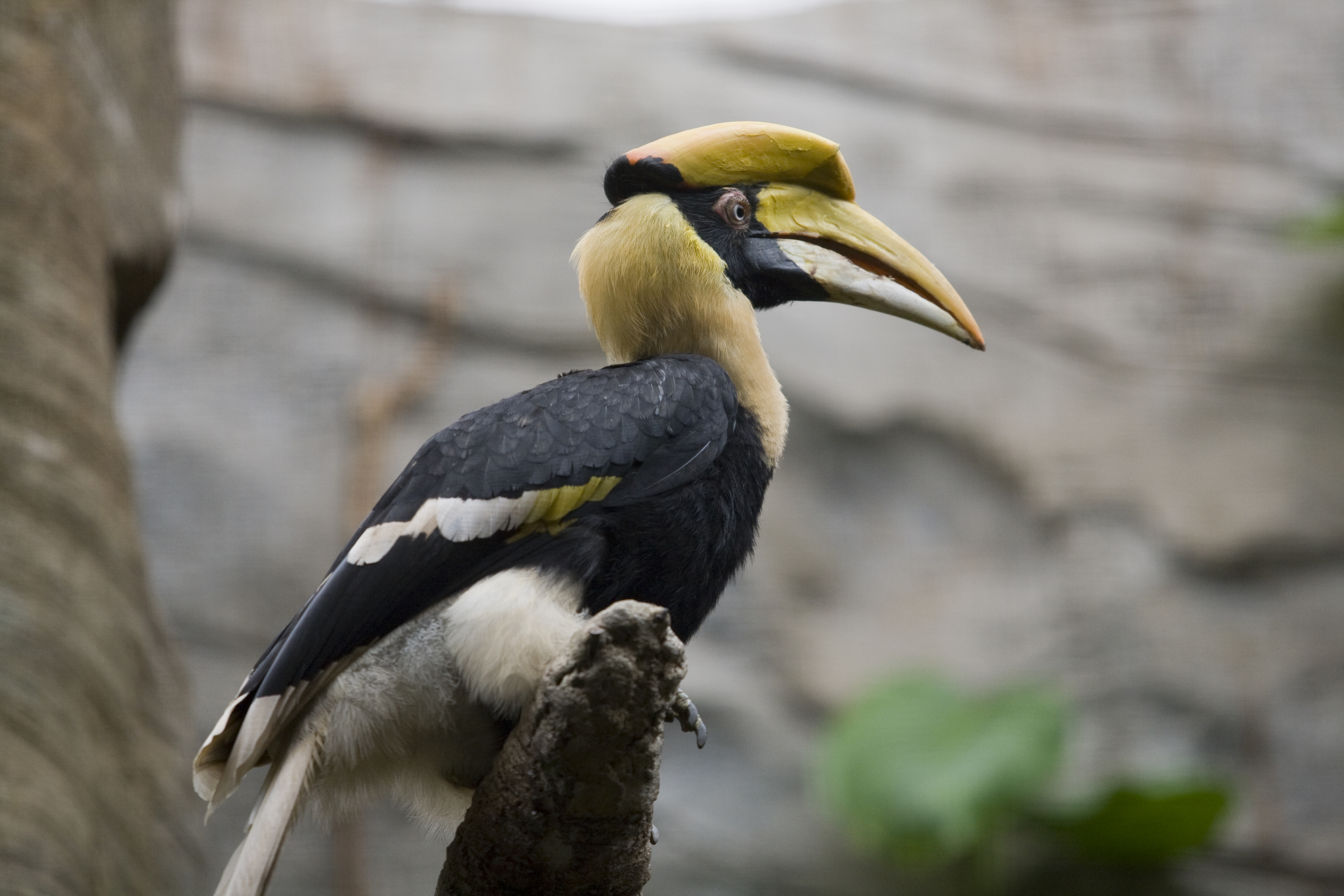 Buceros bicornis or Great Hornbill taken at the Köln Zoo.